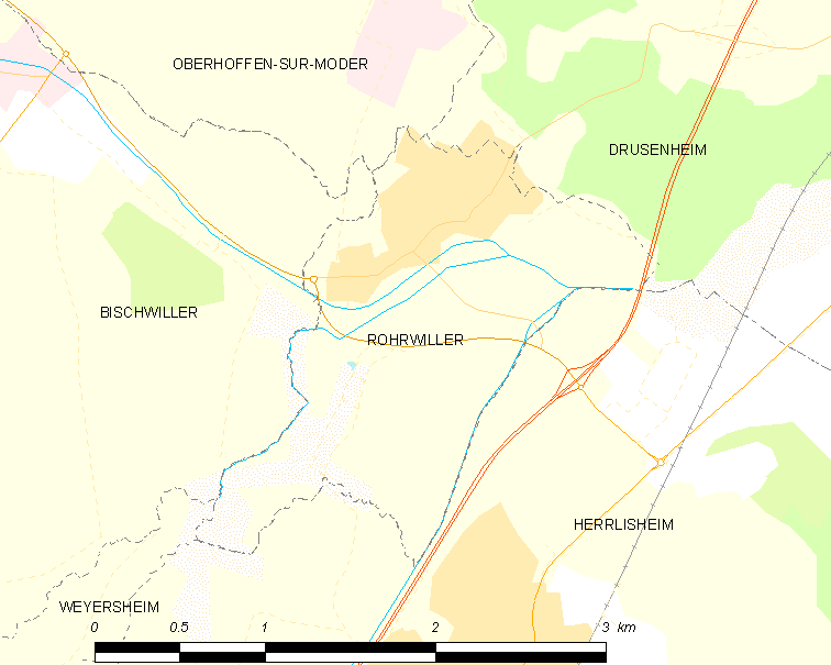 Map of French municipality